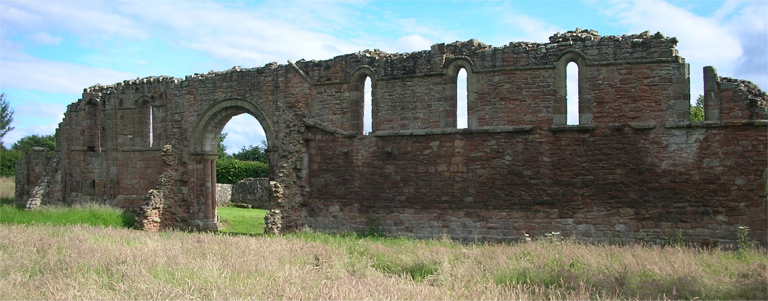 White Ladies Priory, Shropshire, England. Photographed by me 23 June 2007. Oosoom